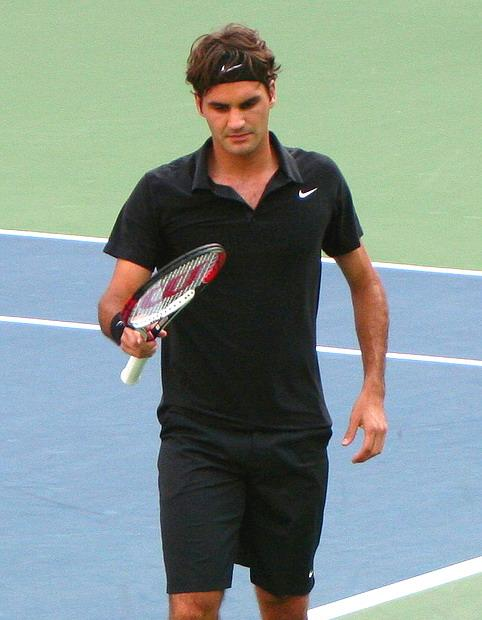 crop of Roger Federer at the 2007 US Open